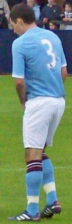 Greg Cunningham playing for Manchester City Reserves at Ewen Fields, 24 August 2010